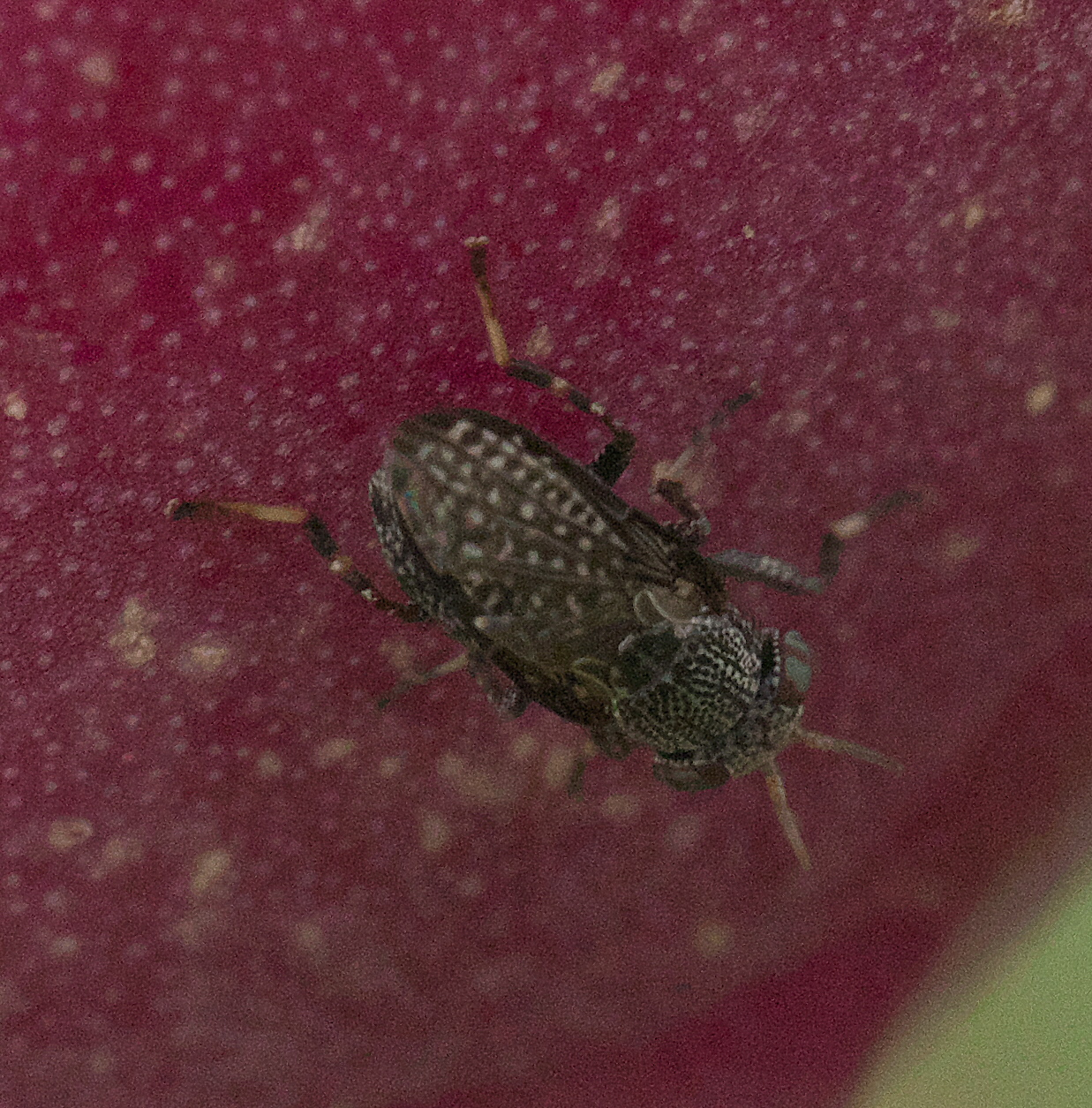 Stictomyia longicornis, Family: Picture-winged Flies, ID Confidence: 98